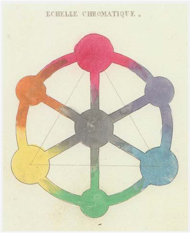 RYB hue circle. JFL Merimee, 1830